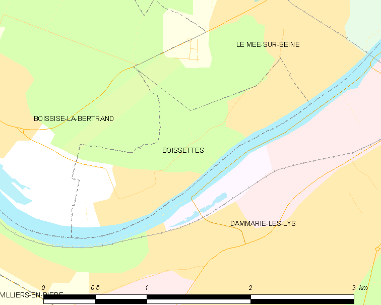 Map of French municipality Boissettes